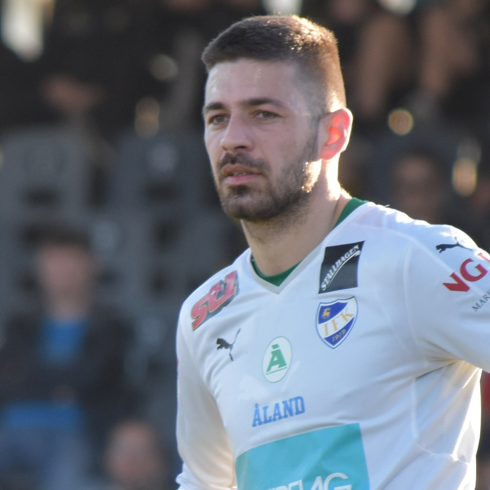 Association football player Ivan Tatomirović (IFK Mariehamn)